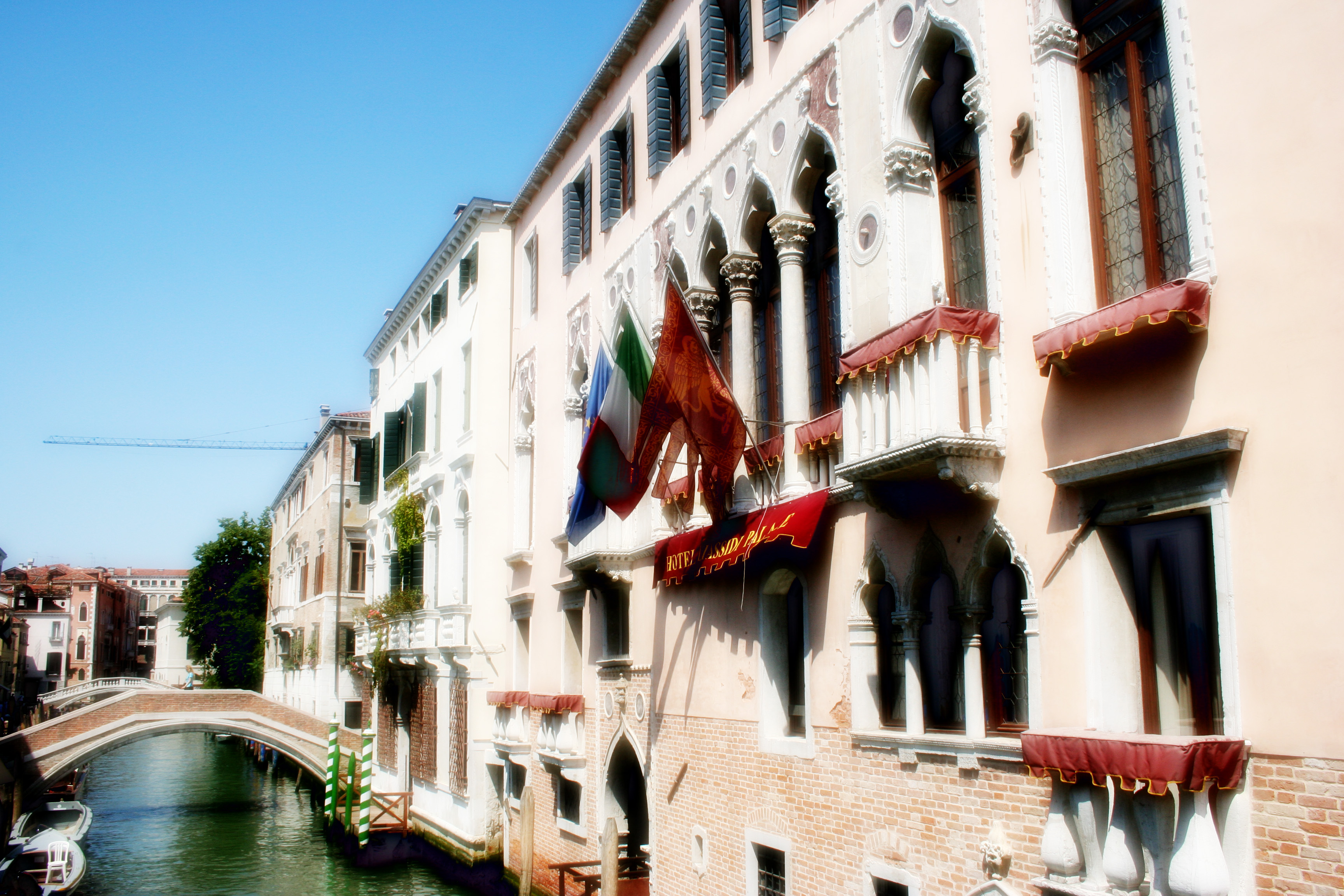 Palaces and bridge in Venice.